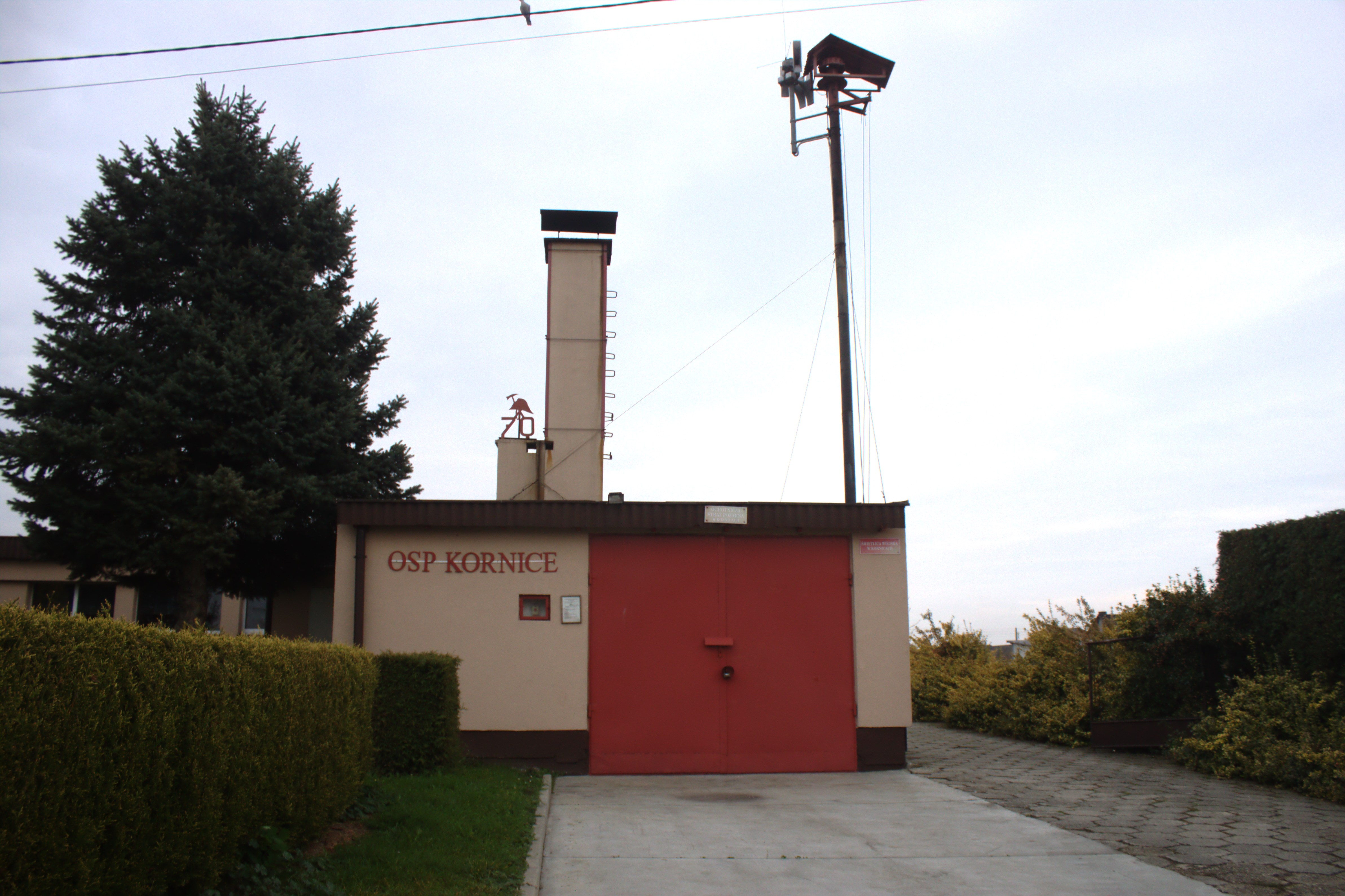 A fire station in the village of Kornice, Silesian Voivodeship, PL